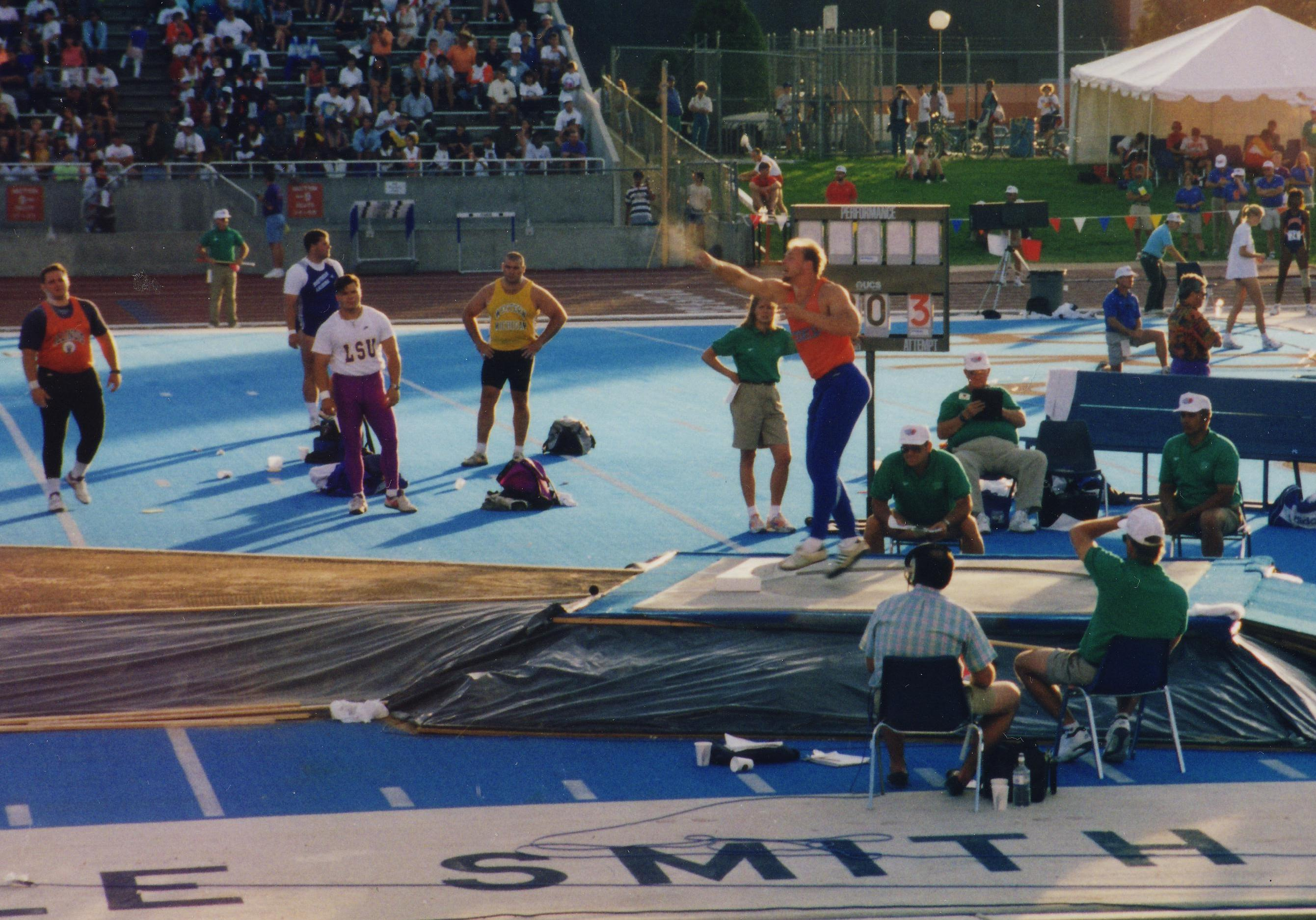 Kjell Ove Hauge, second place finisher at Broncos Stadium, during 1994 NCAA track & field championships shot put final